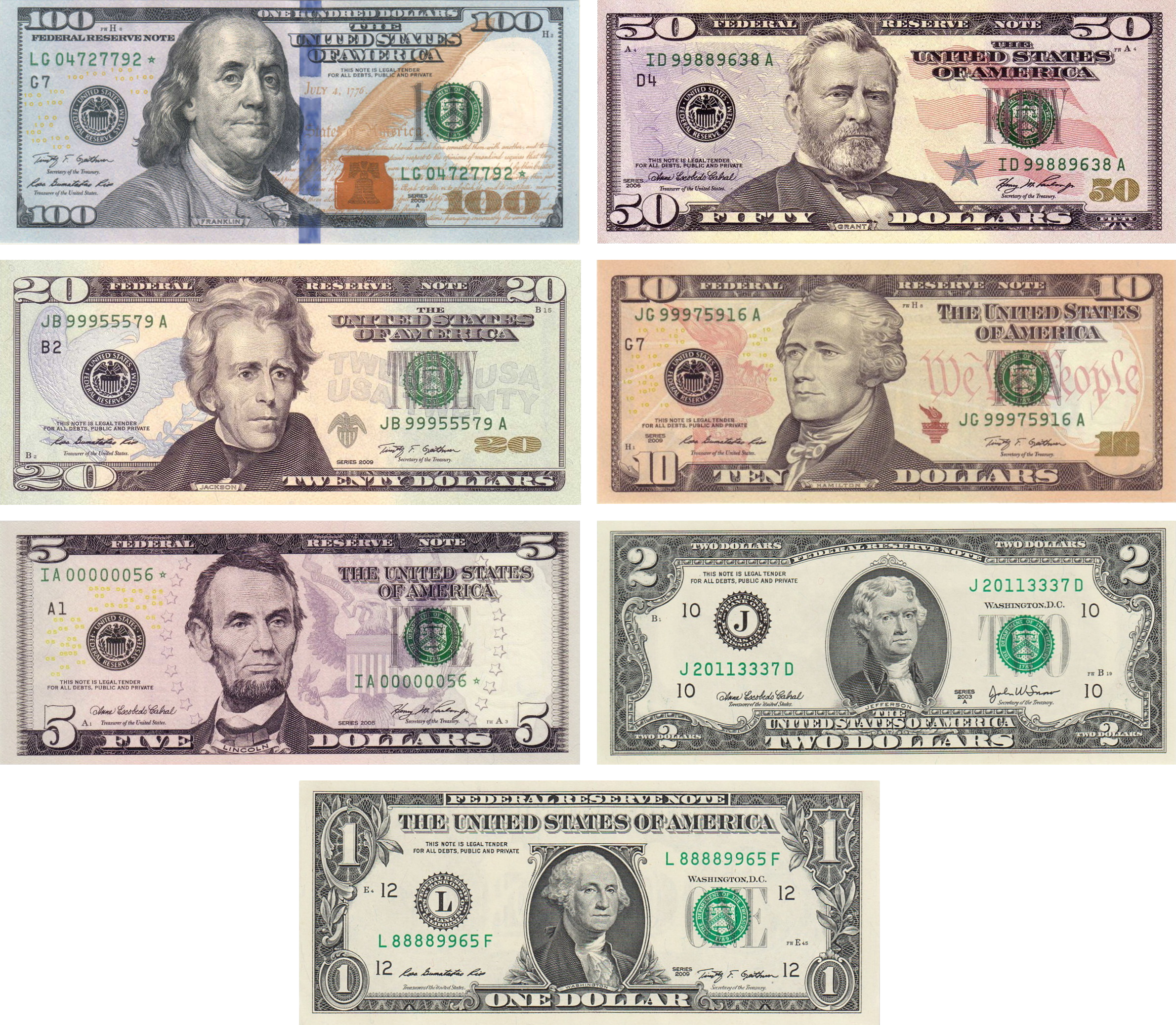 Current Federal Reserve Notes as of June 2018